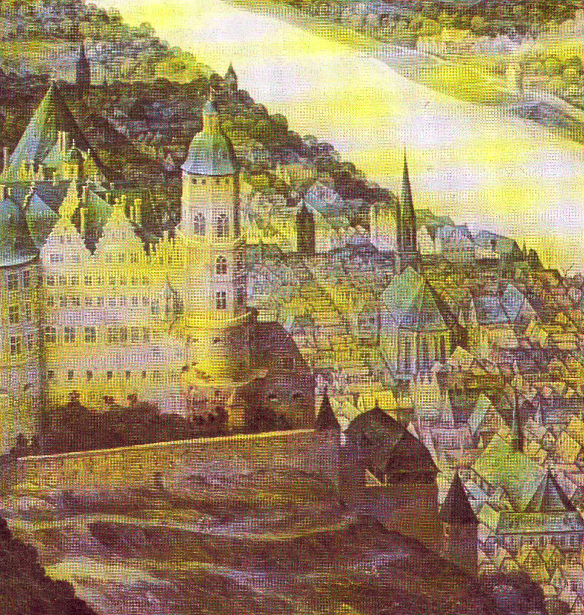 part of a historic view of Heidelberg castle by Jacques Fouquière